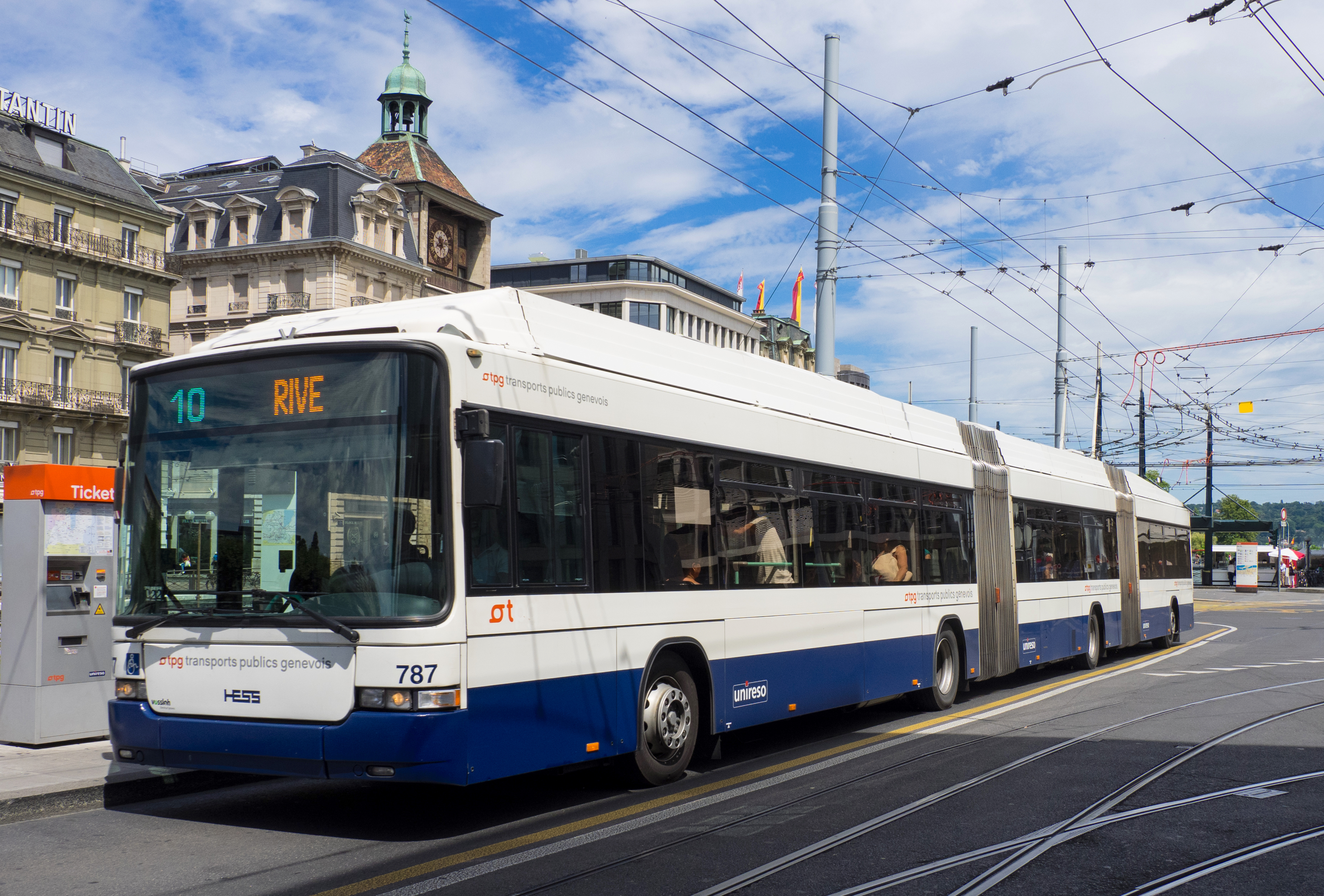 Geneva trolleybus 787, a double-articulated Hess trolleybus (a Hess "lighTram" trolleybus), at Place Bel-Air